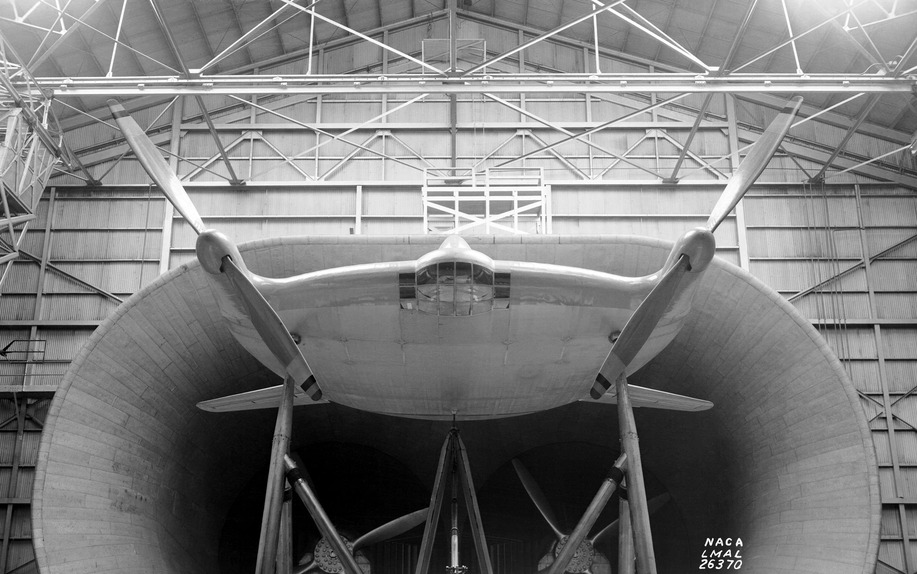 View of the Vought-Sikorsky V-173 airplane mounted in the Full Scale Wind Tunnel. Shows the prototype "Zimmer Skimmer" or "Flying Pancake" on which the XF5U was based.